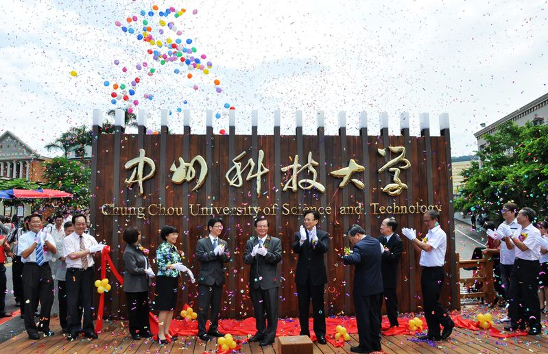 2011年8月1日改名科技大學揭牌典禮-時任教育部長及彰化縣長蒞校剪綵